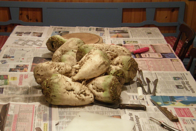 Table laid for Swedish skördefest ("bedegille")